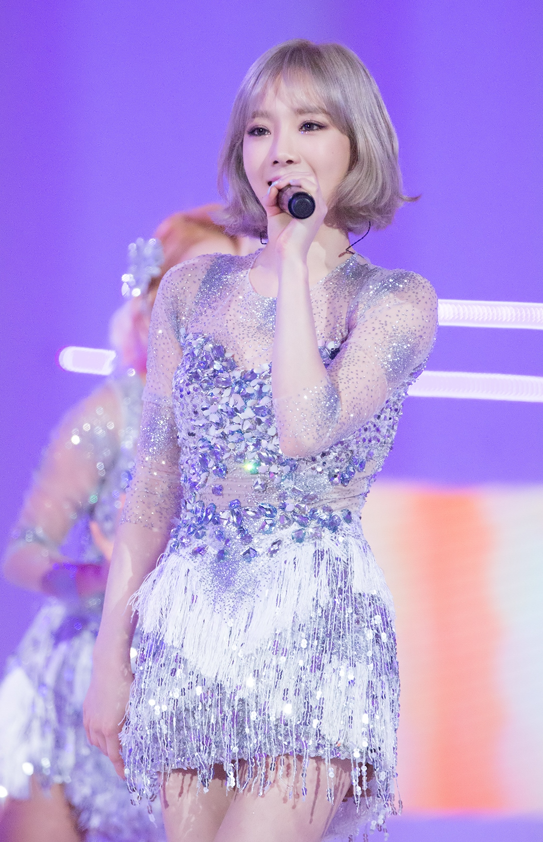 Taeyeon at Style Icon Asia on March 15, 2016.